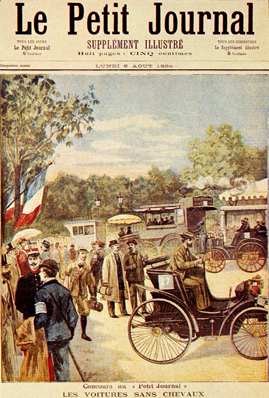 Painting of starting scene of the 1894 Paris Rouen Concours des Voitures sans Chevaux, on the front page of Le Petit Journal 5 August 1894. Car 27 is a Peugeot 3 hp driven by Louis Rigoulot.